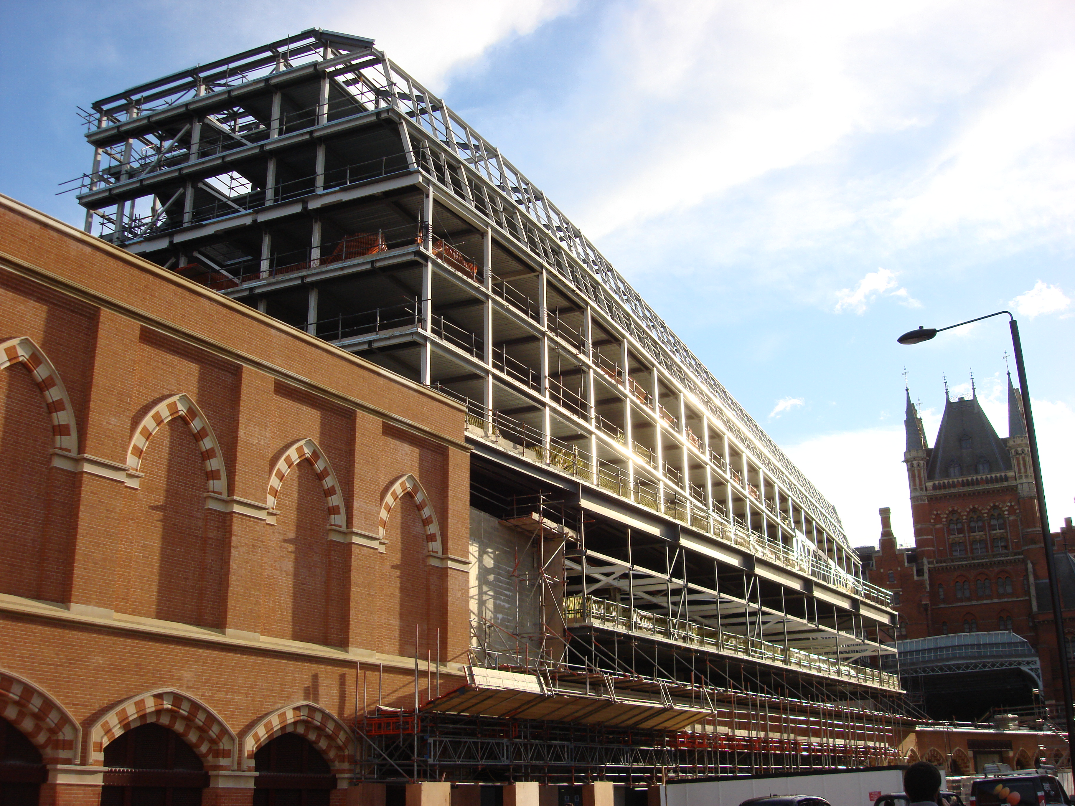 Midland Grand Hotel extension under construction, St Pancras station, London.